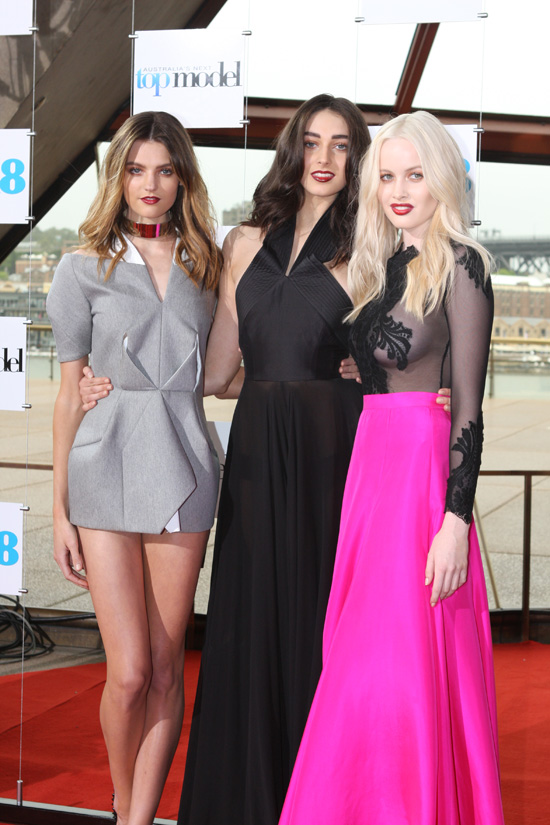 L to R: Montana Cox, Liz Braithwaite and Simone Holtznagel 2011